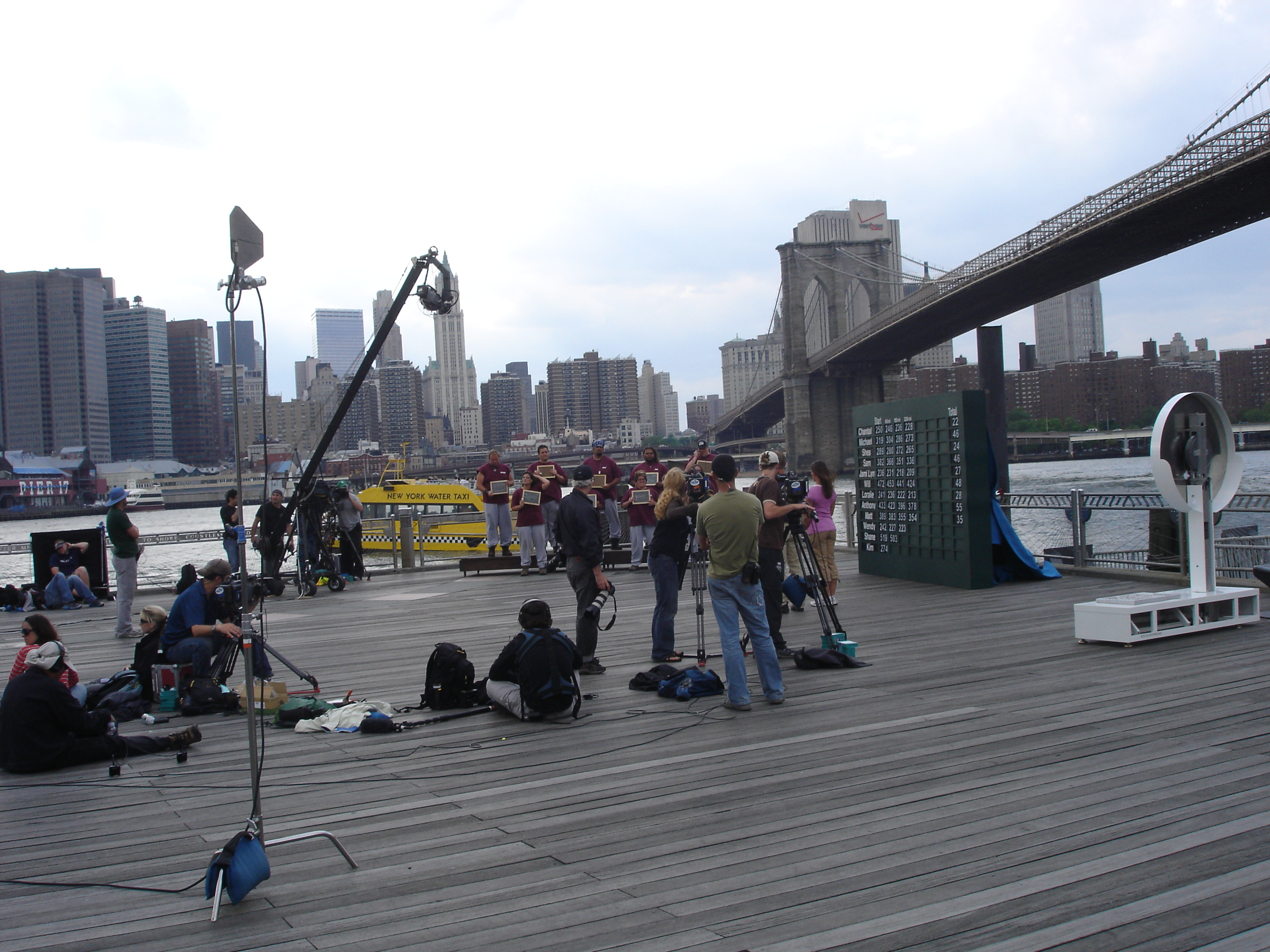 Caught a picture of a taping of the show Fat March on my senior trip